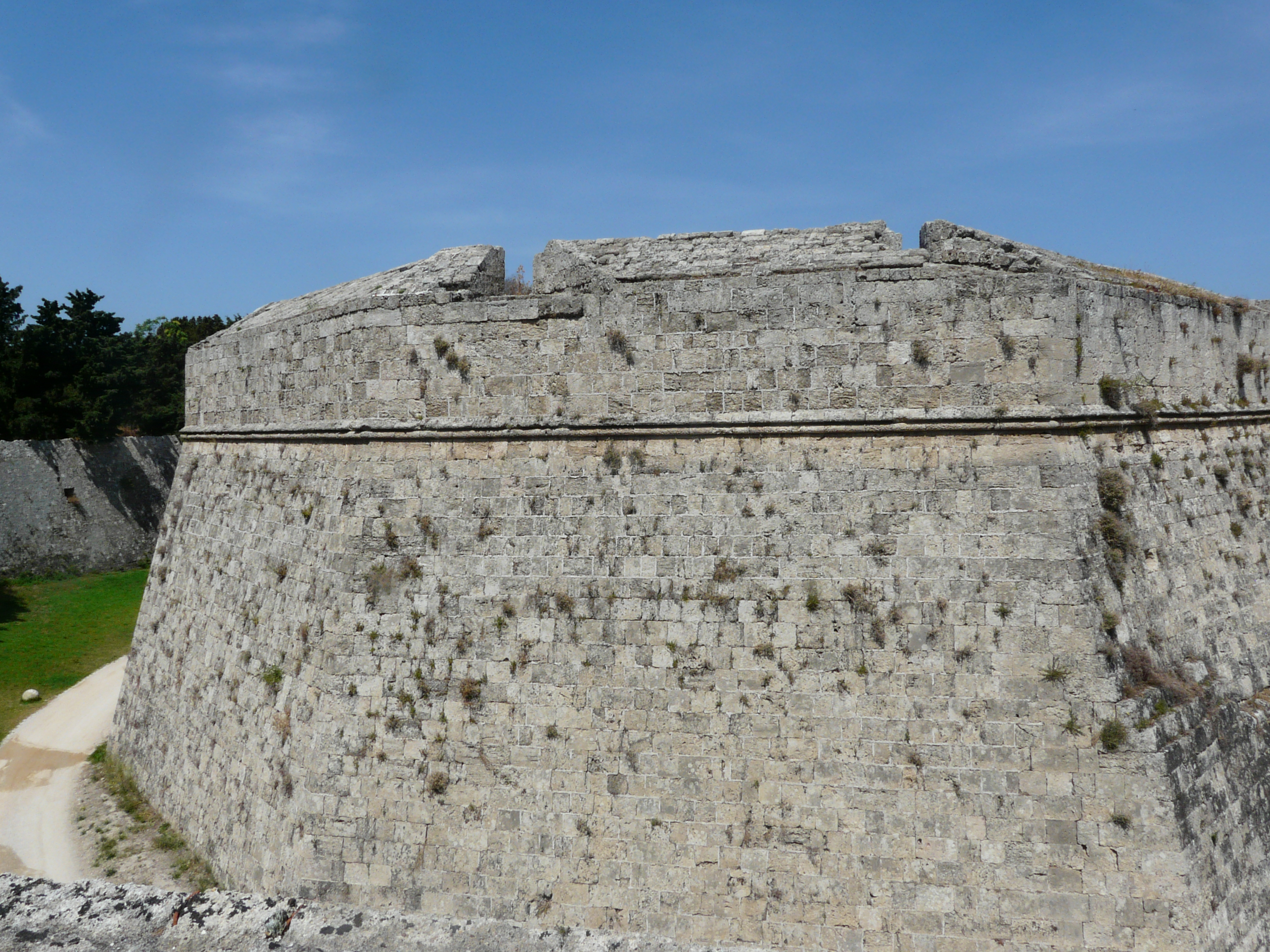 City of Rhodes.